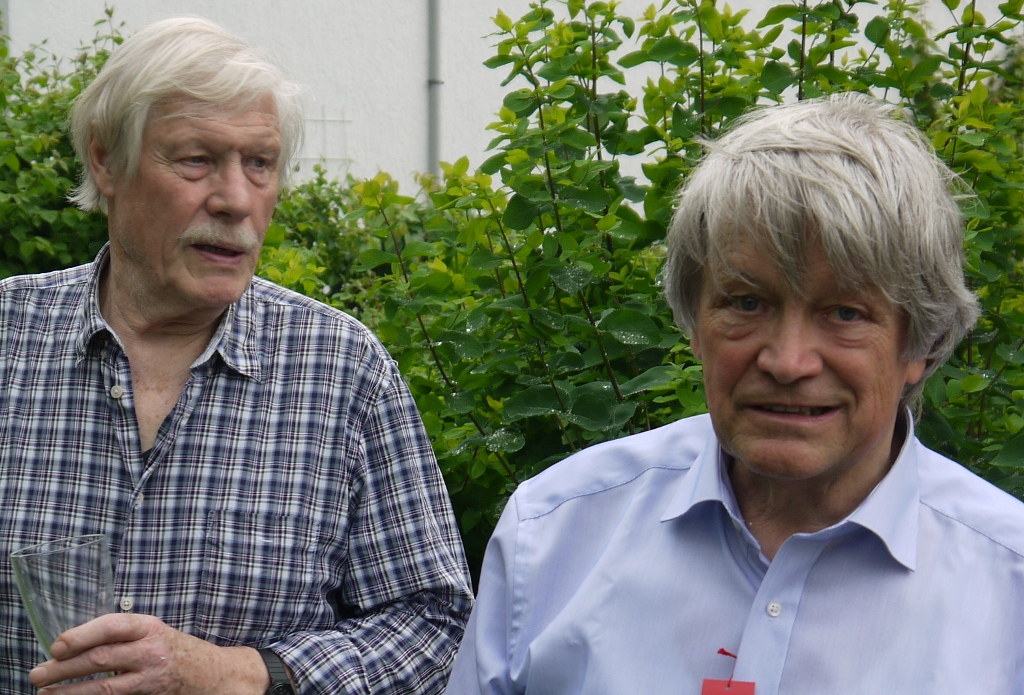 J. Wendt (Journalist) and Prof. Ulrich Baehr (Painter) 2013